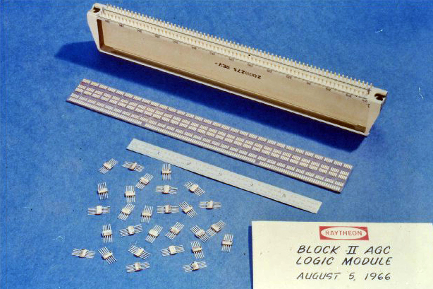 Block II Logic Board for the Apollo Guidance Computer